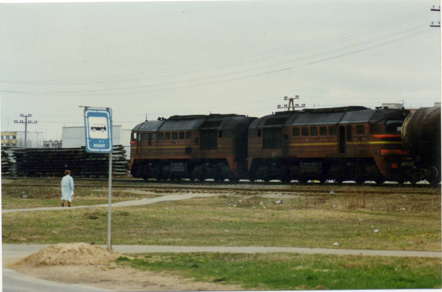 A double M62 locomotive , the 2M62 built in Lugansk or Voroshilovgrad as was. Some details of Estonian rolling stock here The original number of 2M62 locos in stock at independence in 1991 was 38, but following privatisation in the early 2000s, US built diesels have replaced most of them.